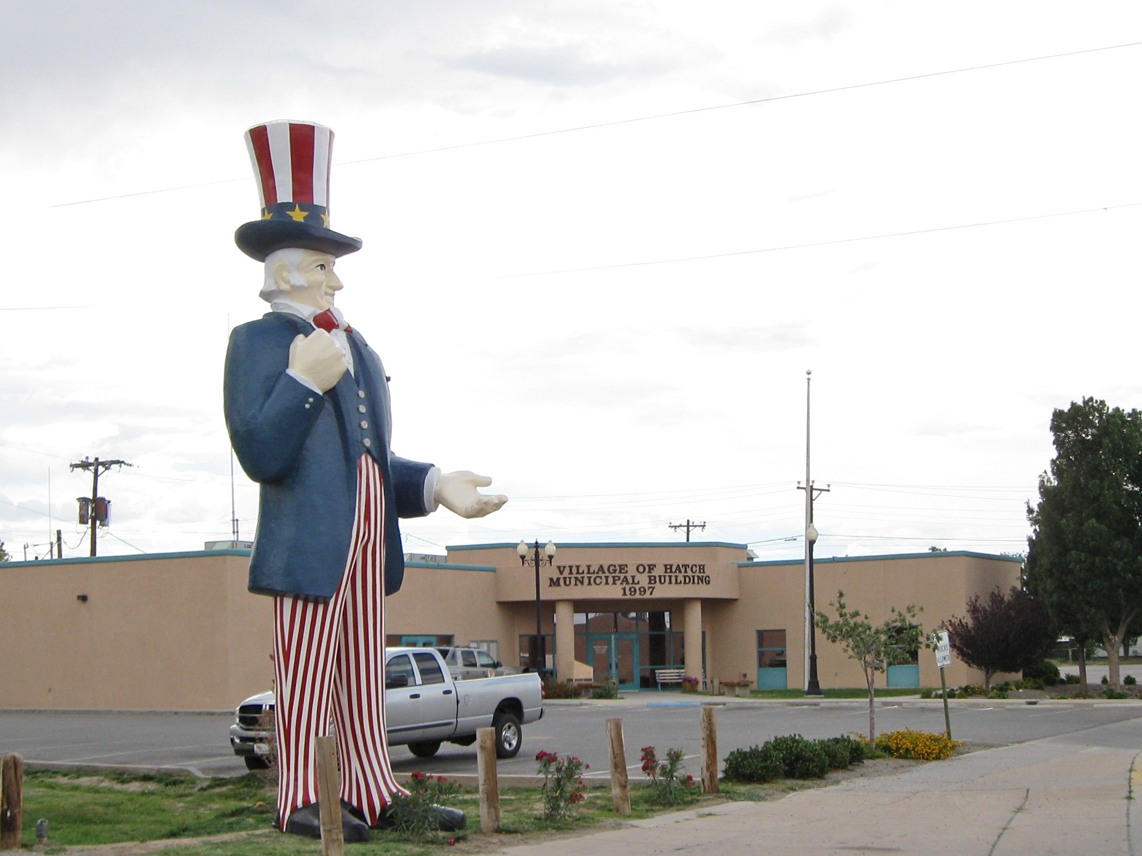 Hatch (New Mexico) Municipal Building, located at 133 North Franklin, with large statue of Uncle Sam in front (about 20 feet high)